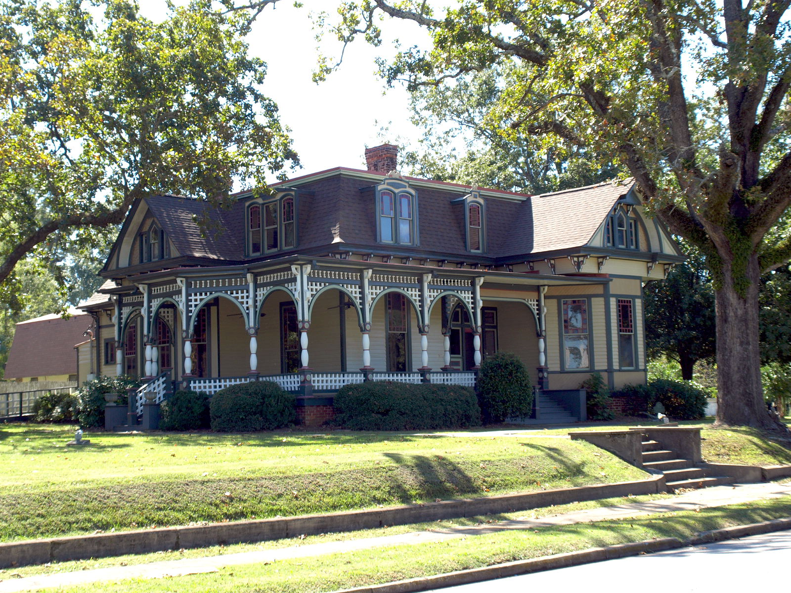 The Charles Gunn House in Gadsden, Alabama, listed on the National Register of Historic Places